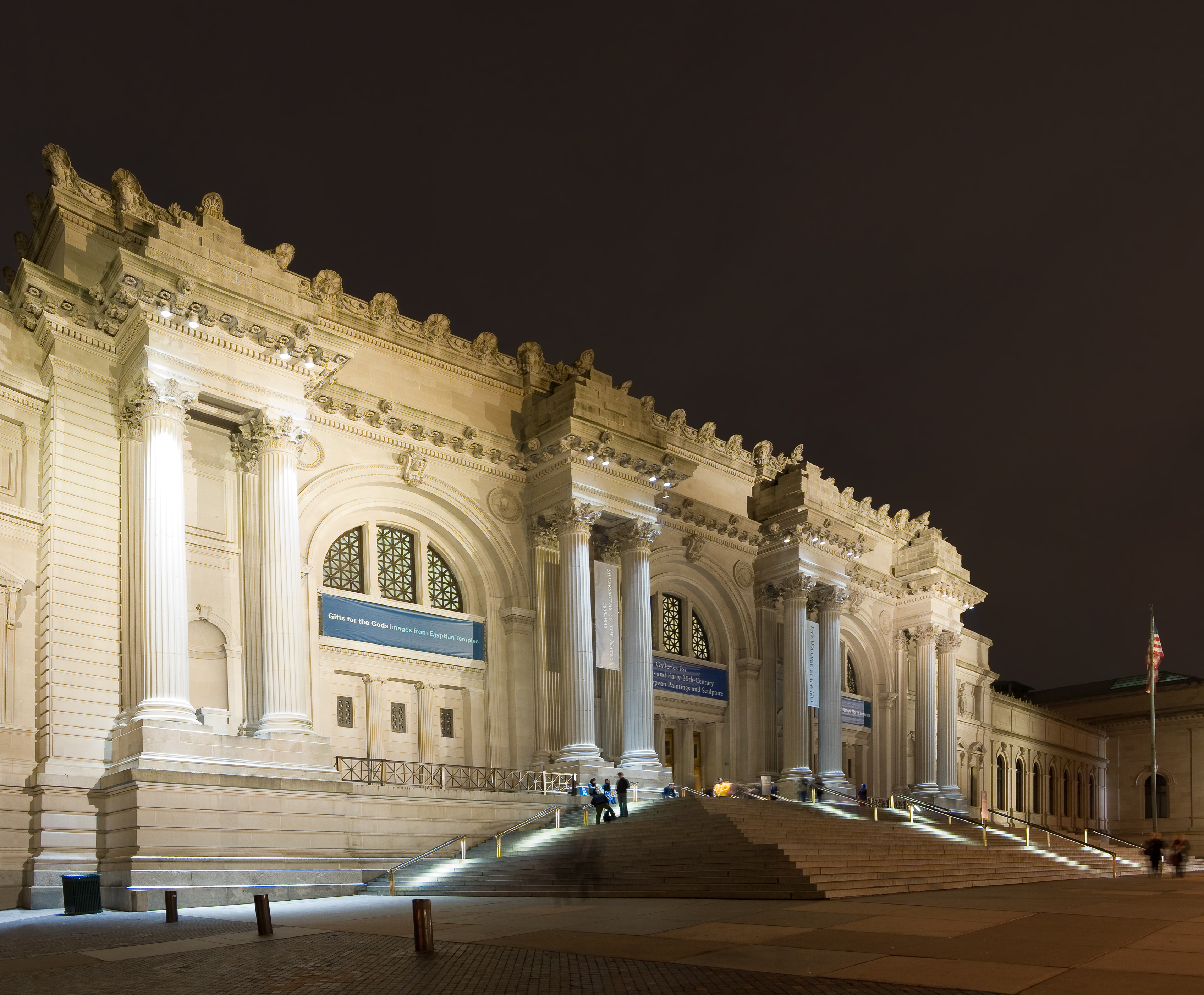 The Metropolitan Museum of art in New York City.